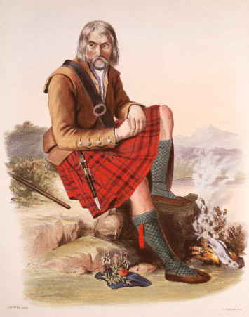 "MacFarlane". A plate illustrated by R. R. McIan, from James Logan's The Clans of the Scottish Highlands, published in 1845.